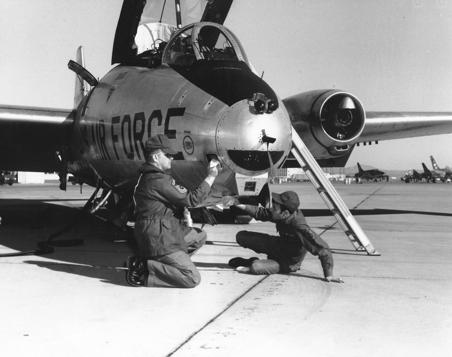 A U.S. Air Force Martin RB-57B Canberra. This photo was probably taken at Holloman Air Force Base, New Mexico (USA), in 1967, when the 8th Tactical Fighter Squadron, 49th Tactical Fighter Wing was transitioning from the F-105D to the F-4D (both aircraft are visible in the background, tail code "HC").